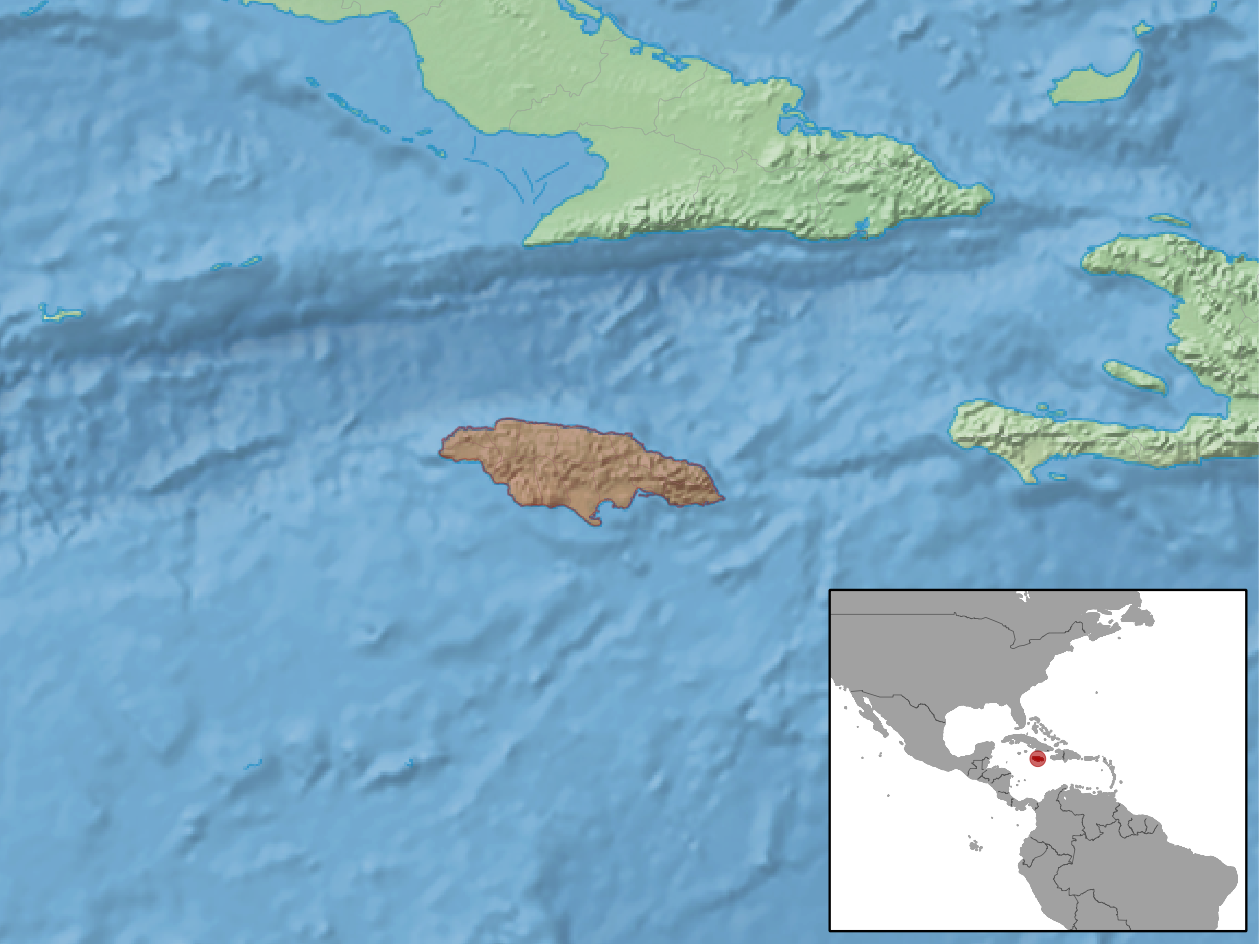 geographic distribution of Ariteus flavescens